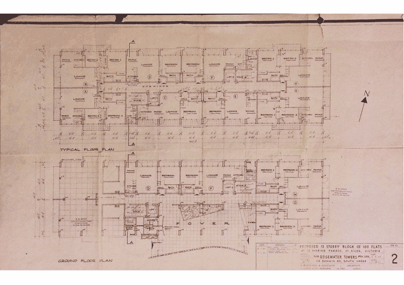 Apartment drawings of Edgewater Towers